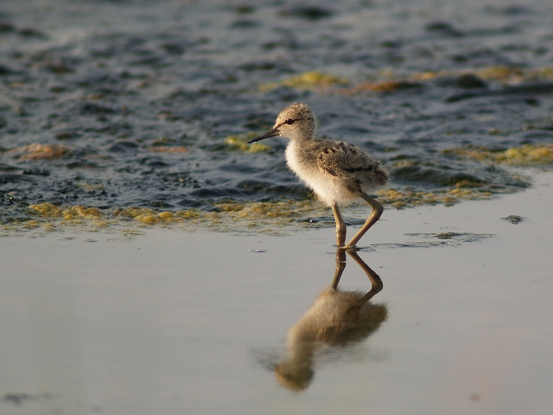 Himantopus himantopus 高蹺鴴, Baby bird, Changhua County, Taiwan, 2007.